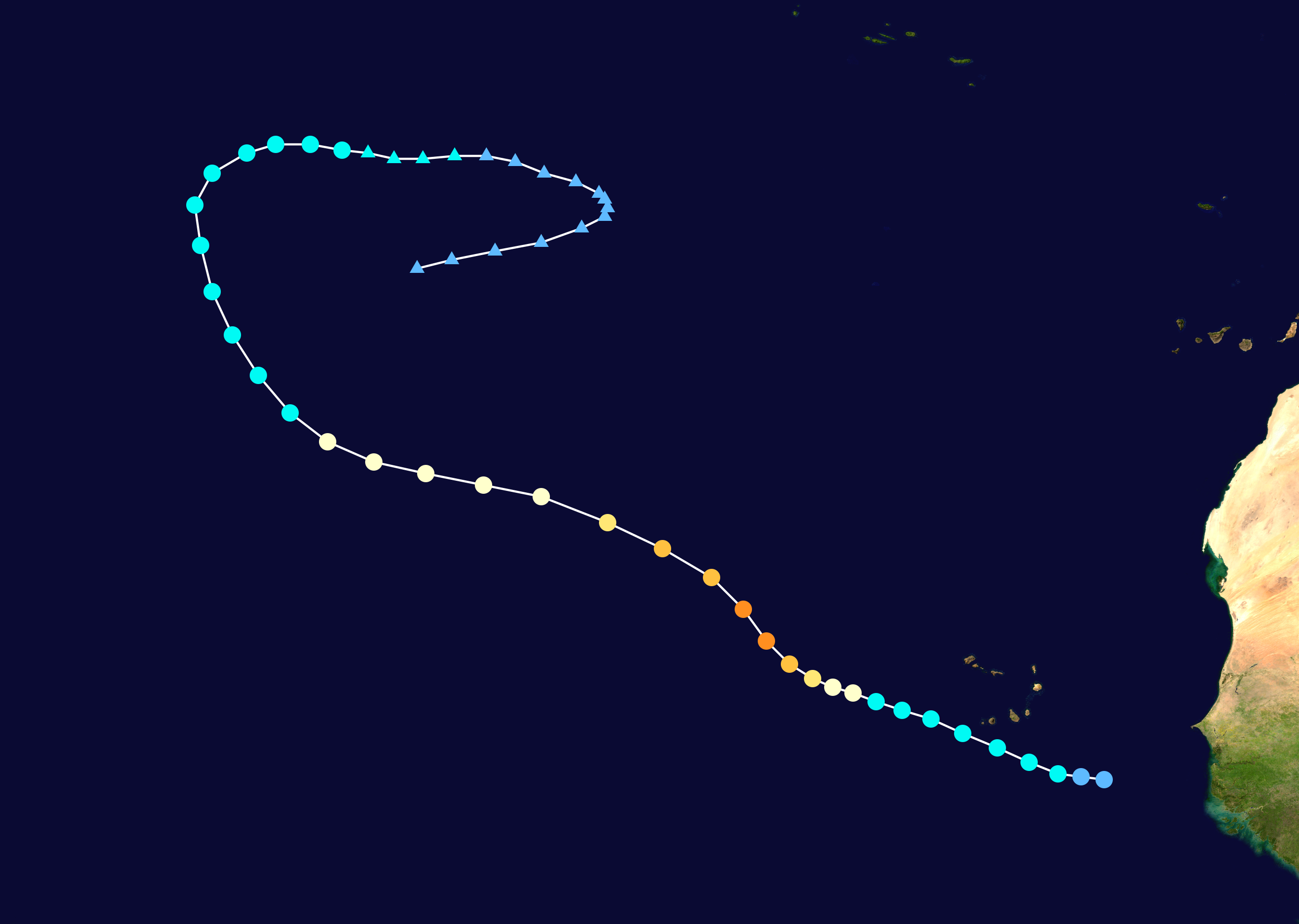 Track map of Hurricane Julia of the 2010 Atlantic hurricane season. The points show the location of the storm at 6-hour intervals. The colour represents the storm's maximum sustained wind speeds as classified in the Saffir–Simpson scale (see below), and the shape of the data points represent the nature of the storm, according to the legend below. Saffir–Simpson scale Tropical depression≤38 mph≤62 km/h Category 3111–129 mph178–208 km/h Tropical storm39–73 mph63–118 km/h Category 4130–156 mph209–251 km/h Category 174–95 mph119–153 km/h Category 5≥157 mph≥252 km/h Category 296–110 mph154–177 km/h Unknown Storm type Tropical cyclone Subtropical cyclone Extratropical cyclone / Remnant low / Tropical disturbance / Monsoon depression